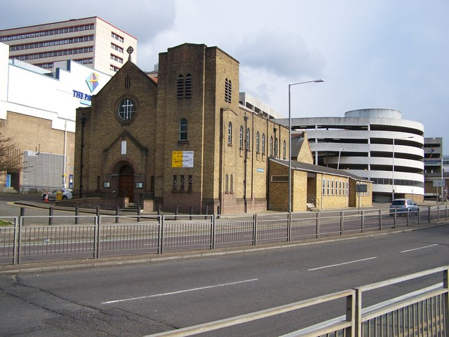 Our Lady of Lourdes & St. Michael R.C. Church One of a few large buildings to survive the modernization of Uxbridge's town centre. Mainly due to luck, I think. Situated on the side of the busy A4020 Oxford Road.